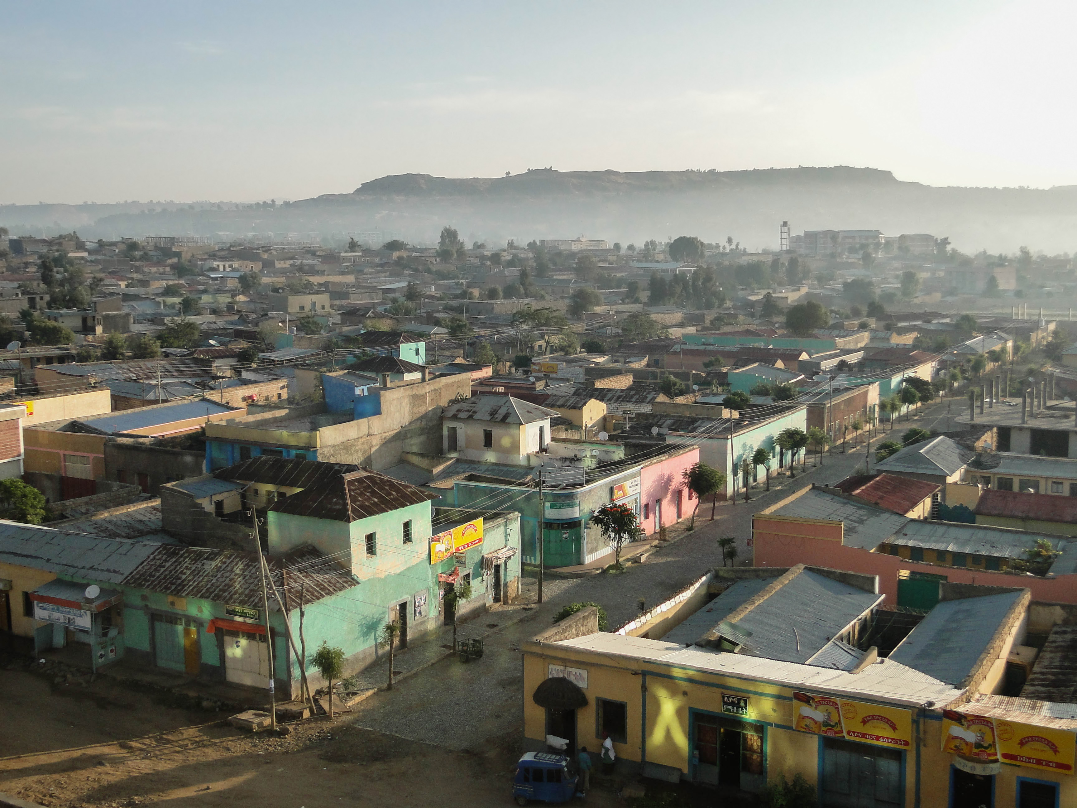 View of Adigrat, Ethiopia